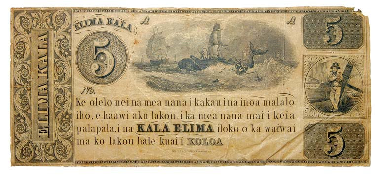 Banknote for 5 dollars, Hawaii, c 1839.